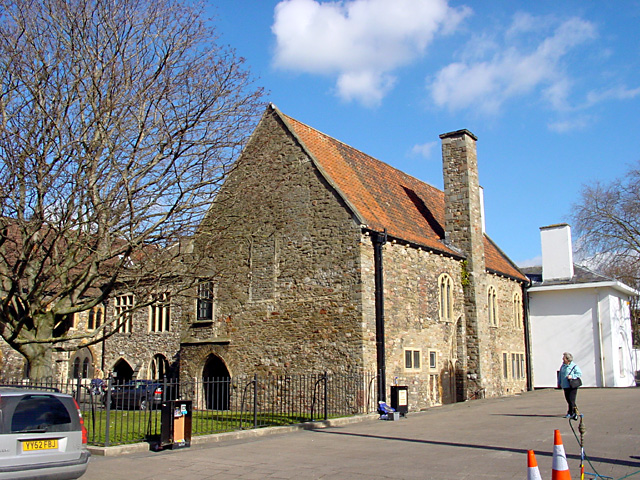 Quakers Friars, Bristol, England. In the centre of the picture is the former Quaker meeting house, built 1747–49.